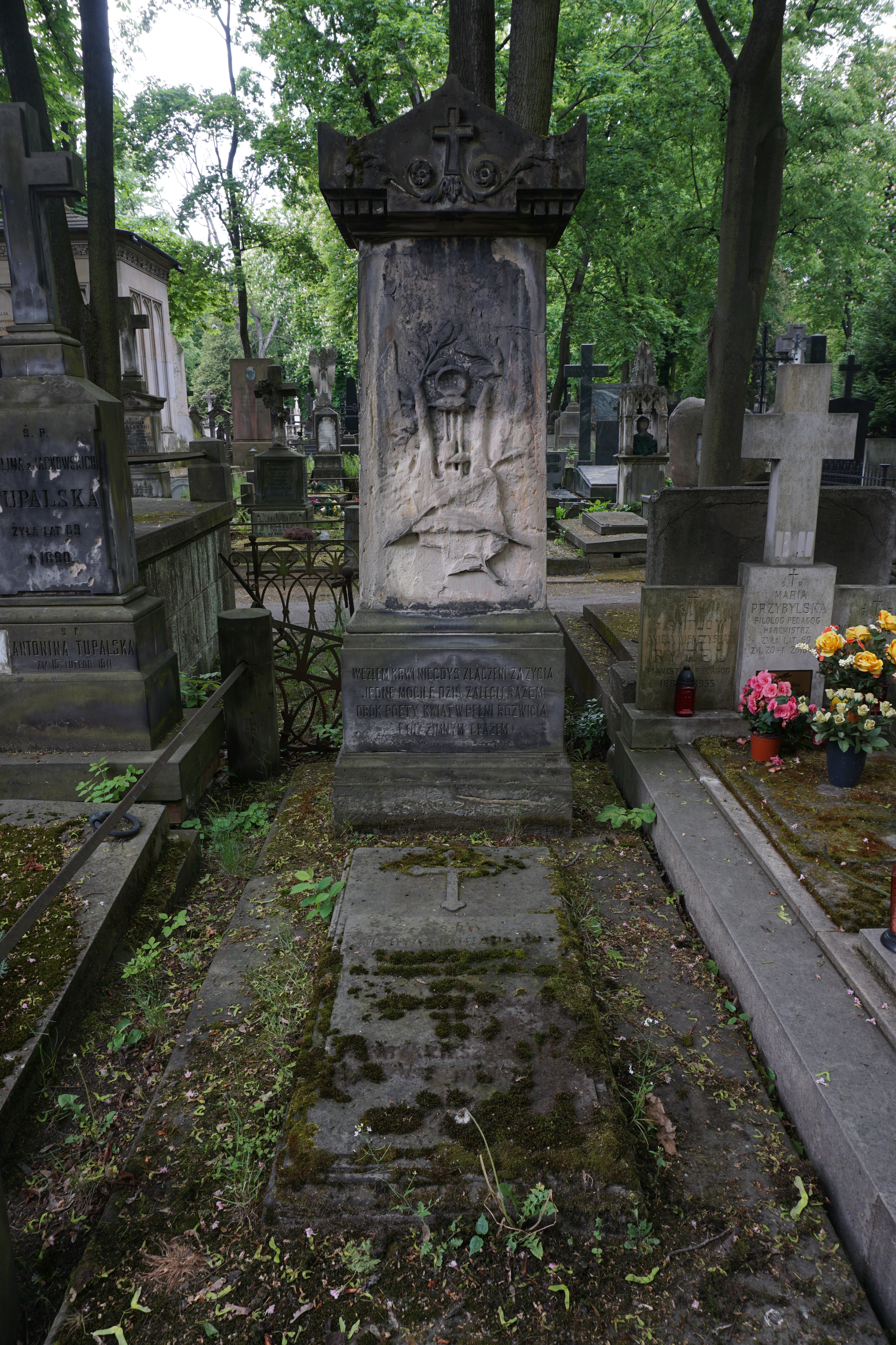 The grave of Henryk Cieszkowski at the Powązki Cemetery (section 18, row 5, grave 21)